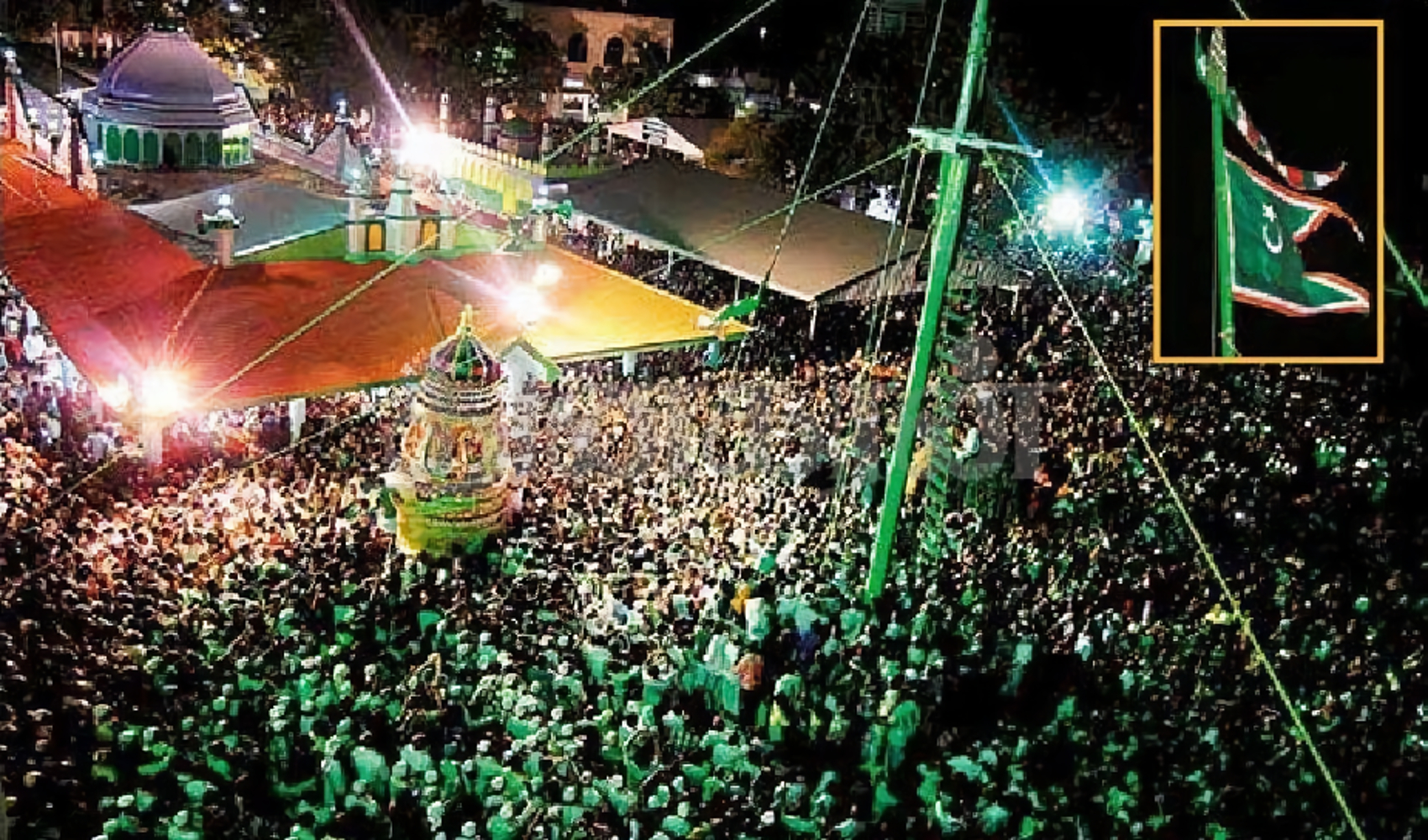 The flag hoisting festival 2013 september at Erwadi durgah, Tamil Nadu, South India